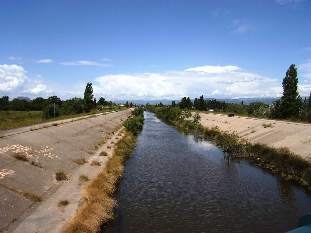 Reyran River in Fréjus (fr)